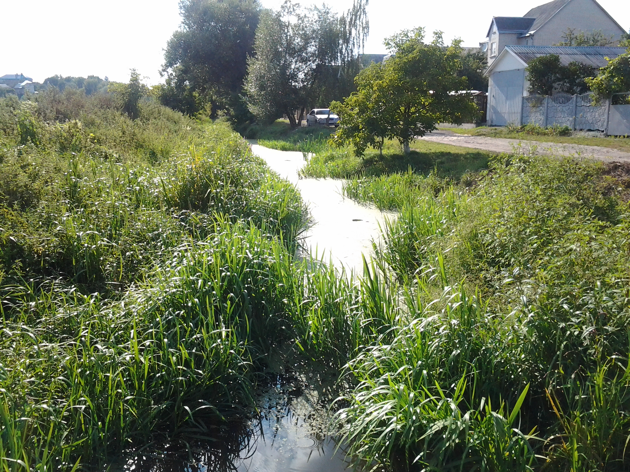 R._Omeljanyk_in_Lutsk_2016